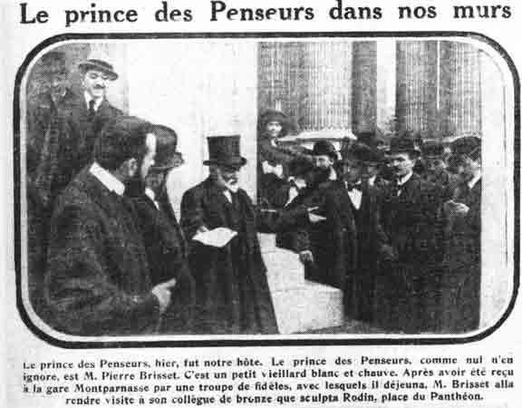 Newspaper clipping